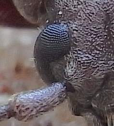 Arhopalus rusticus from Hungary, hairs on eye